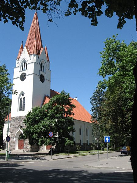 Šilutė, Lithuania: Lutheran church